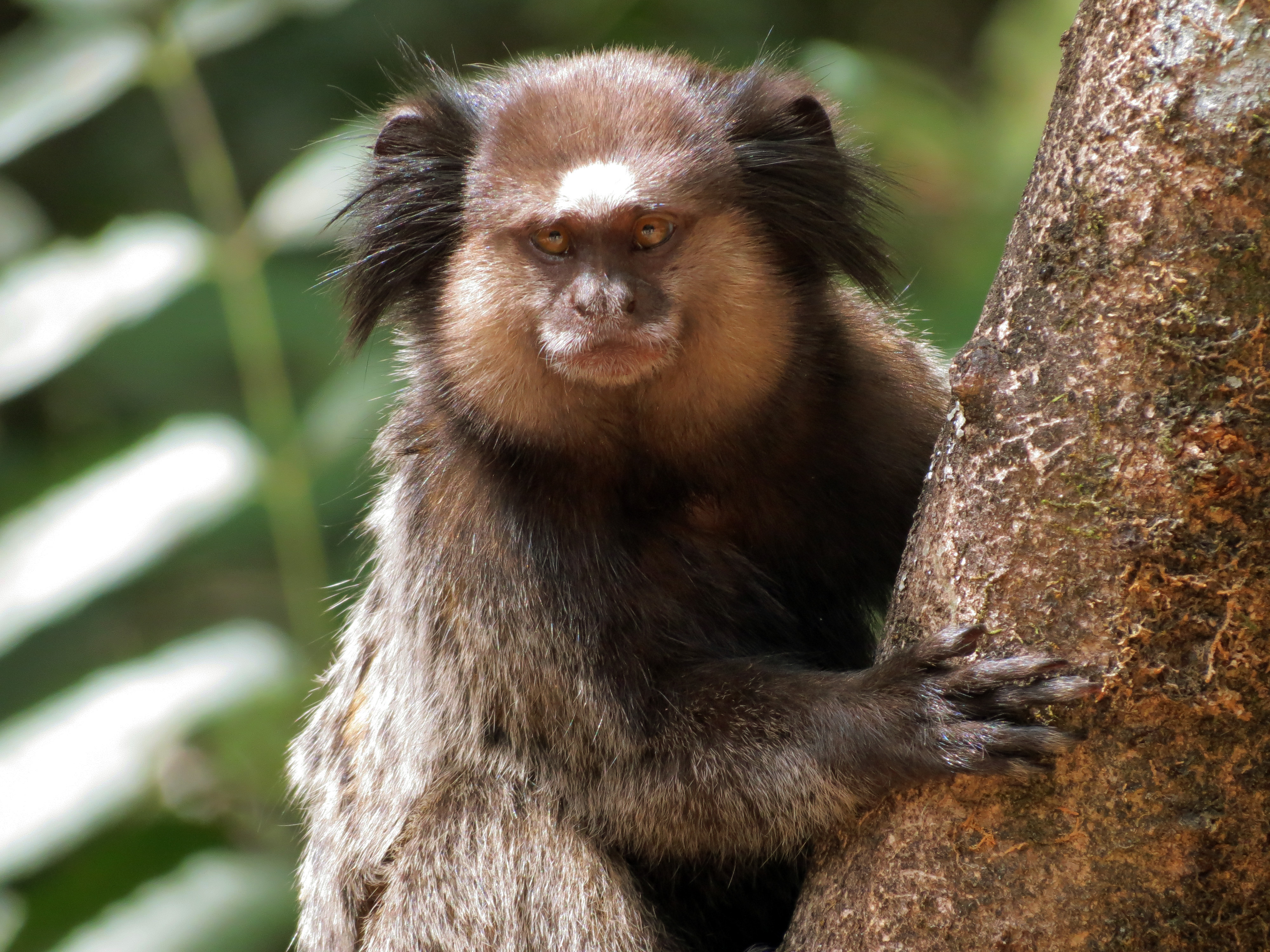 Black-tufted marmoset (Callithrix penicillata) in Belo Horizonte Zoo, Brazil.